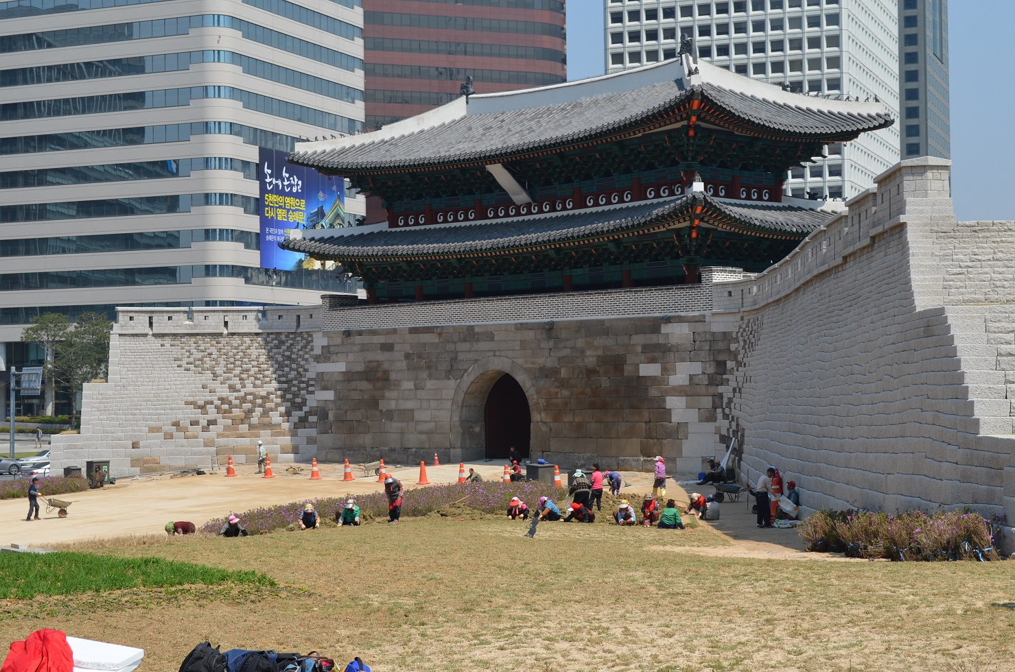 Sungnyemun Gate, also known as Namdaemun Gate or South Gate, Seoul, South Korea. Photographed April 27, 2013.